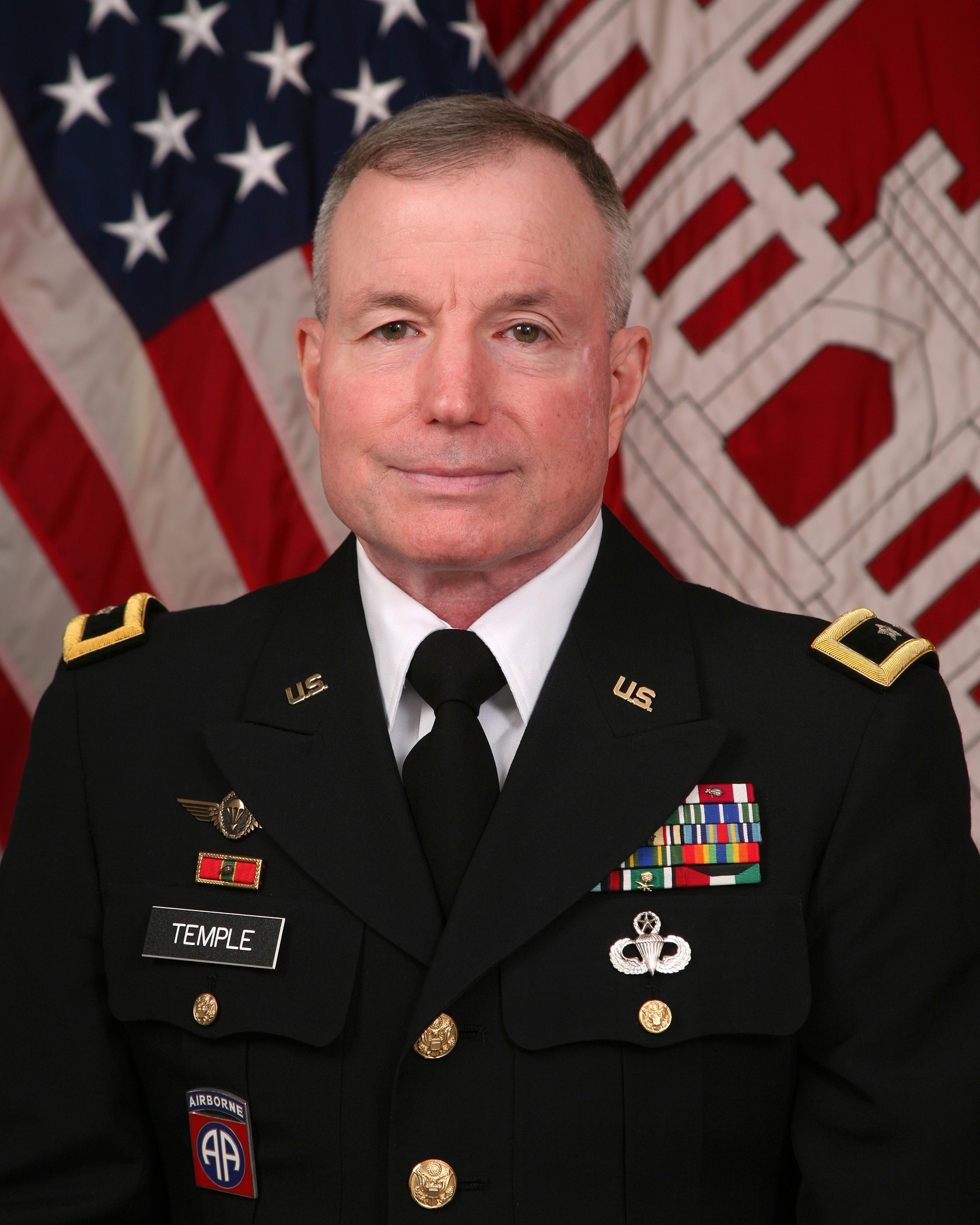 Color photograph portrait of Major General Bo Temple as Acting Chief of Engineers, USACE